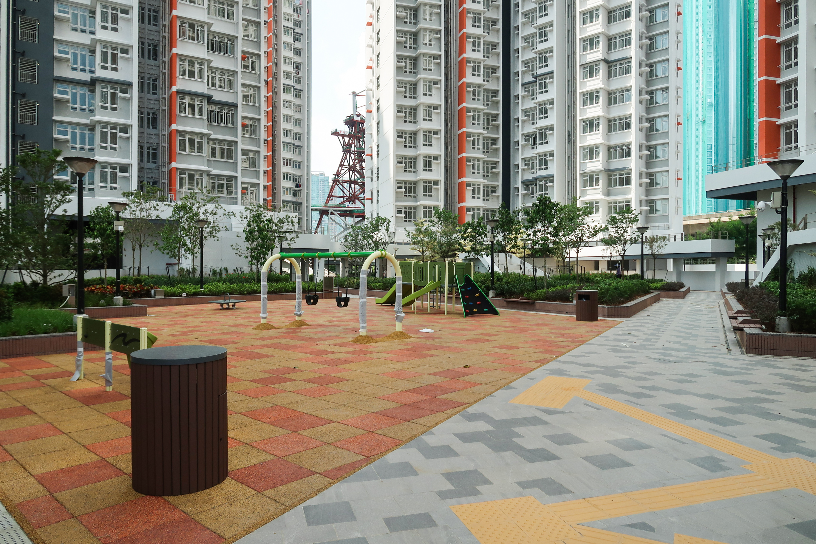 Hoi Lok Court Children Play Area1